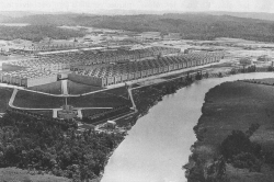 Filter for separating uranium, Oak Ridge plant - (K-25 building, Oak Ridge, Tennessee -- not part of Oak Ridge National Laboratory)